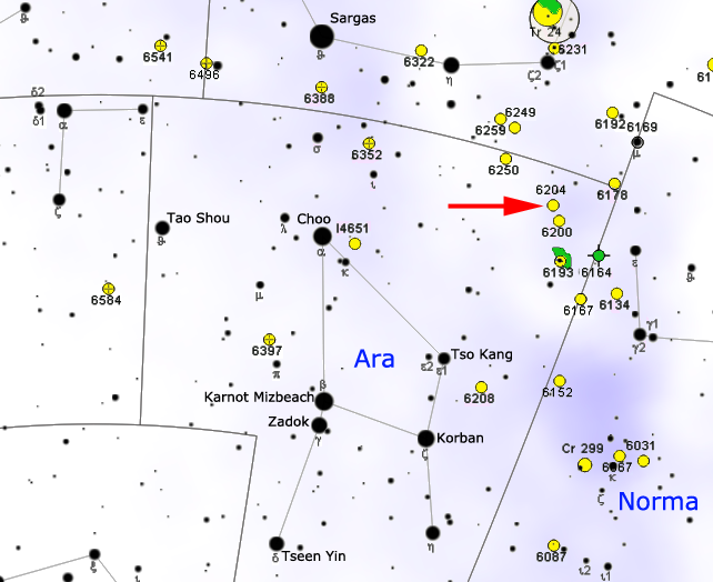 Map of NGC 6204